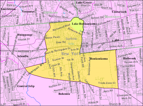 U.S. Census 2000 reference map for Ronkonkoma